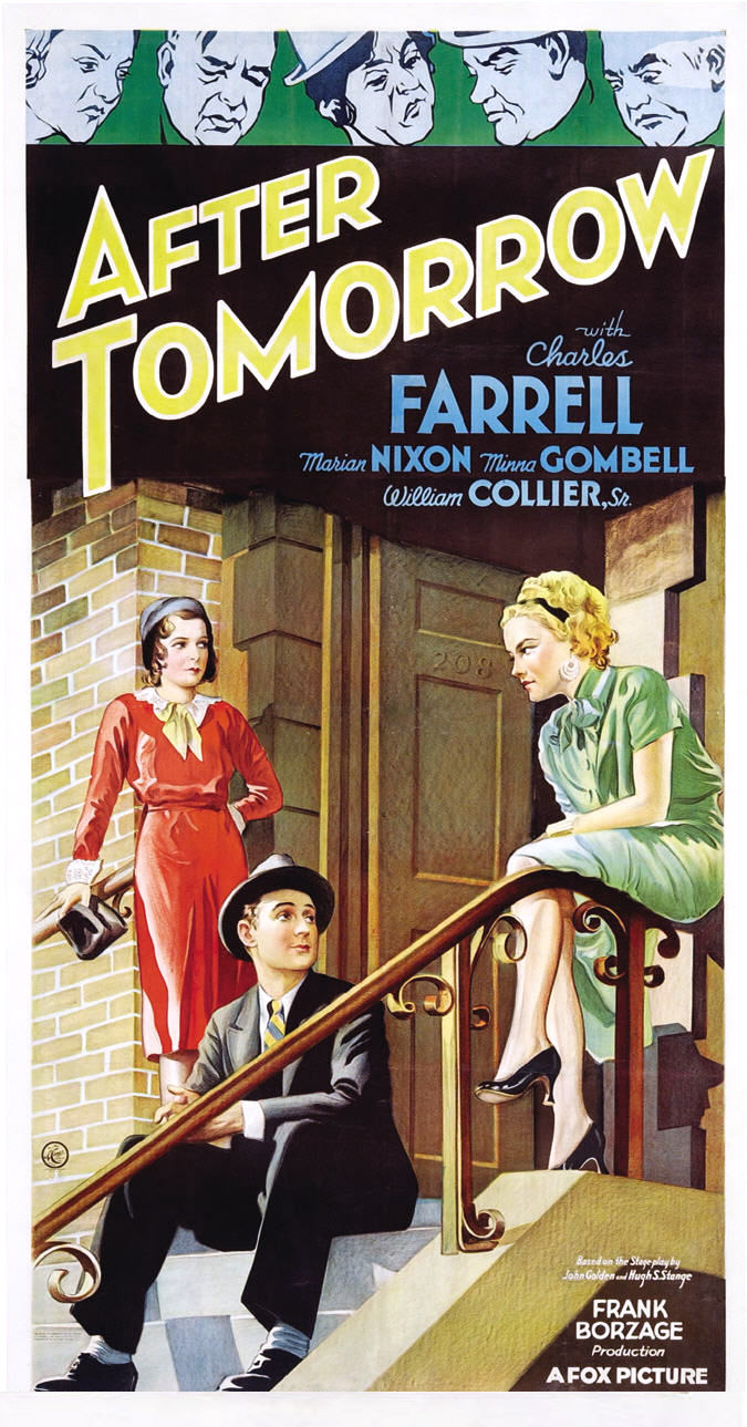 Movie poster for After Tomorrow (1932)